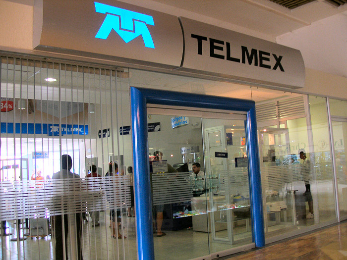 A Telmex store in the Plaza Caracol shopping center on Boulevard Francisco Medina Ascensio in the city of Puerto Vallarta, Jalisco, Mexico.